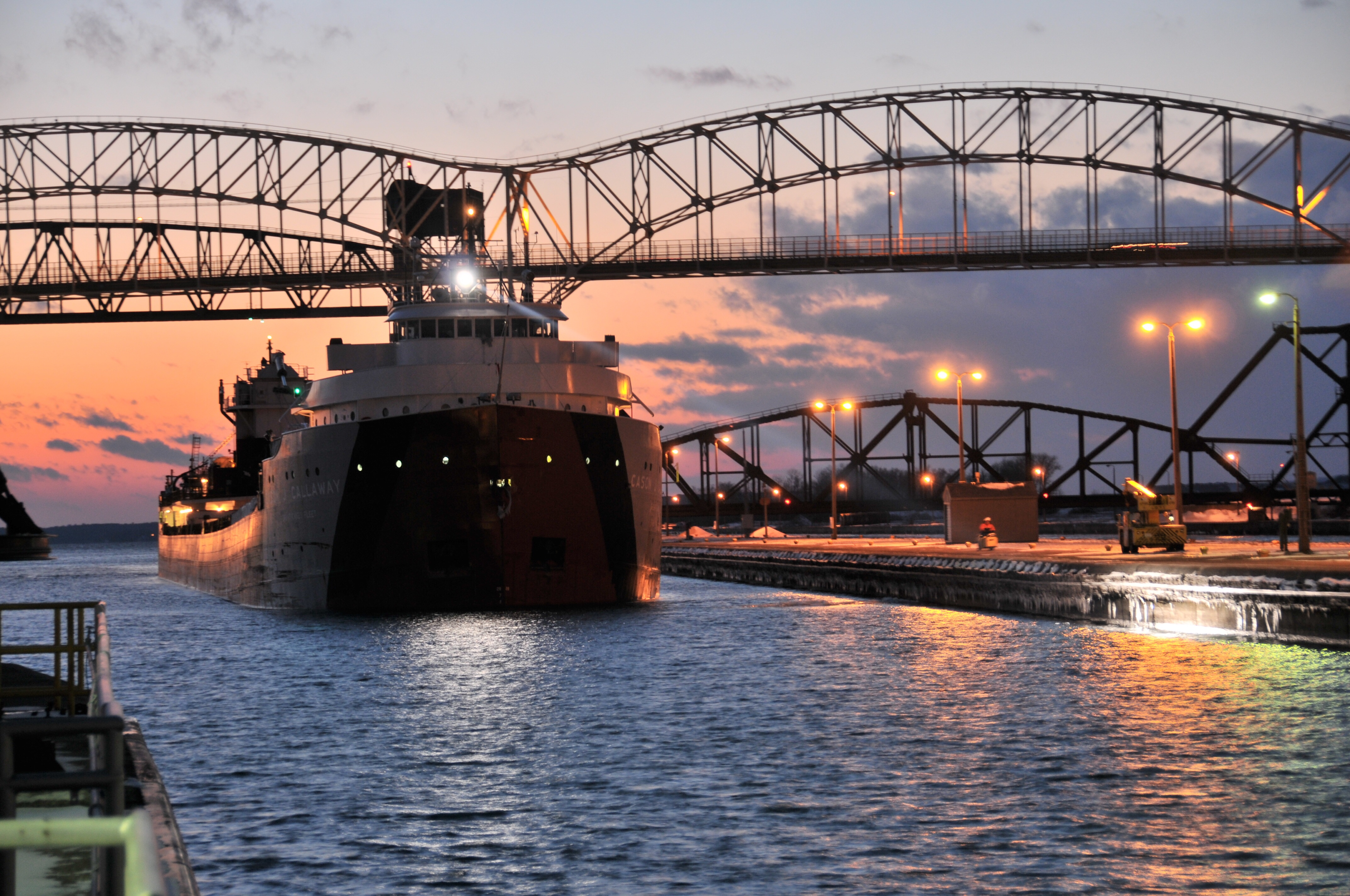 Perfectly scripted with the setting of the sun, the Cason J. Callaway closes out the 2012 shipping season at the Soo Locks in Sault Ste. Marie, Mich.